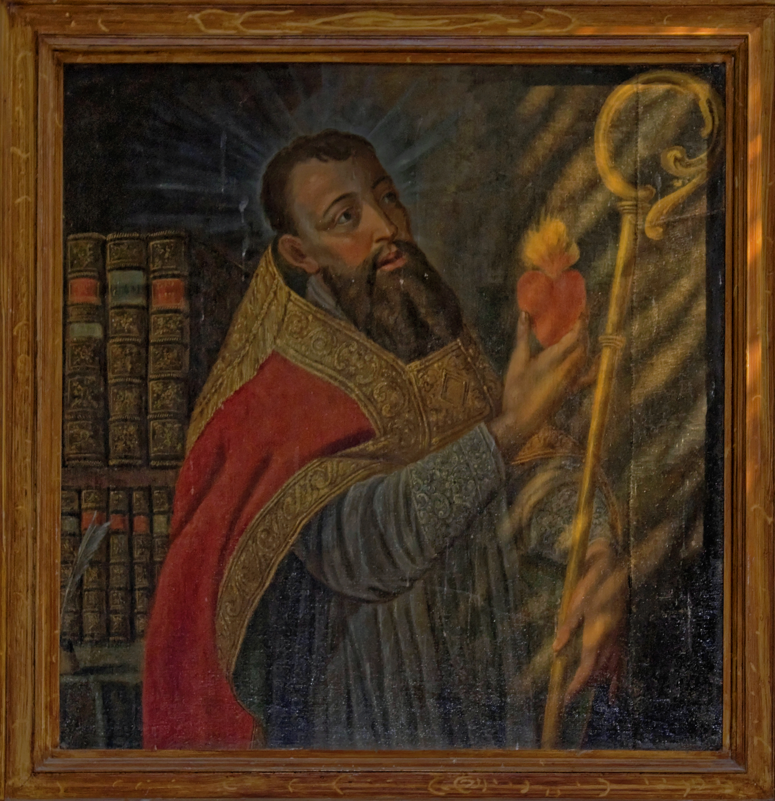 Saint Augustine of Hippo.